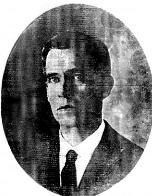 Artêmio Valente's photo